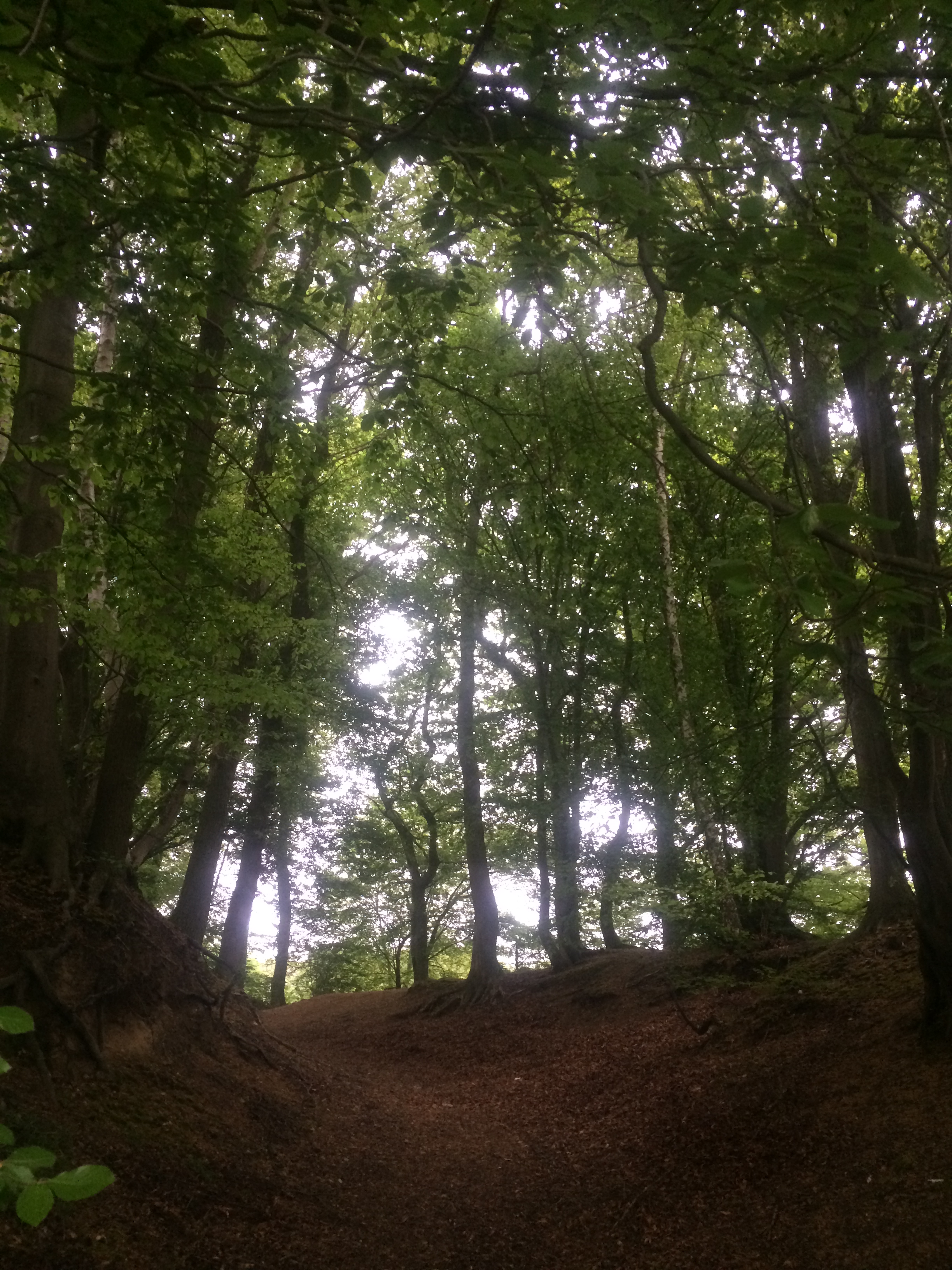 Groeve Sweijer. A natural reserve in Simpelveld, Netherlands.